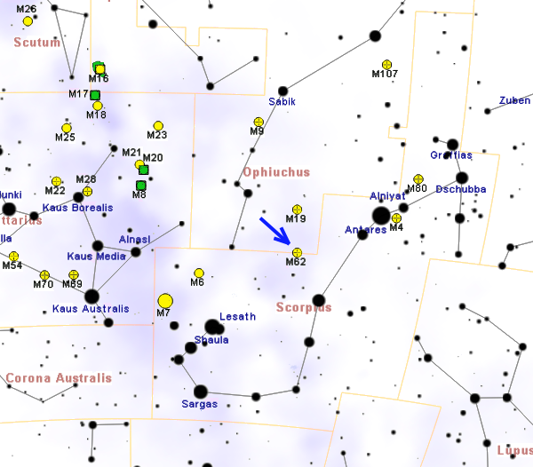 map of M62